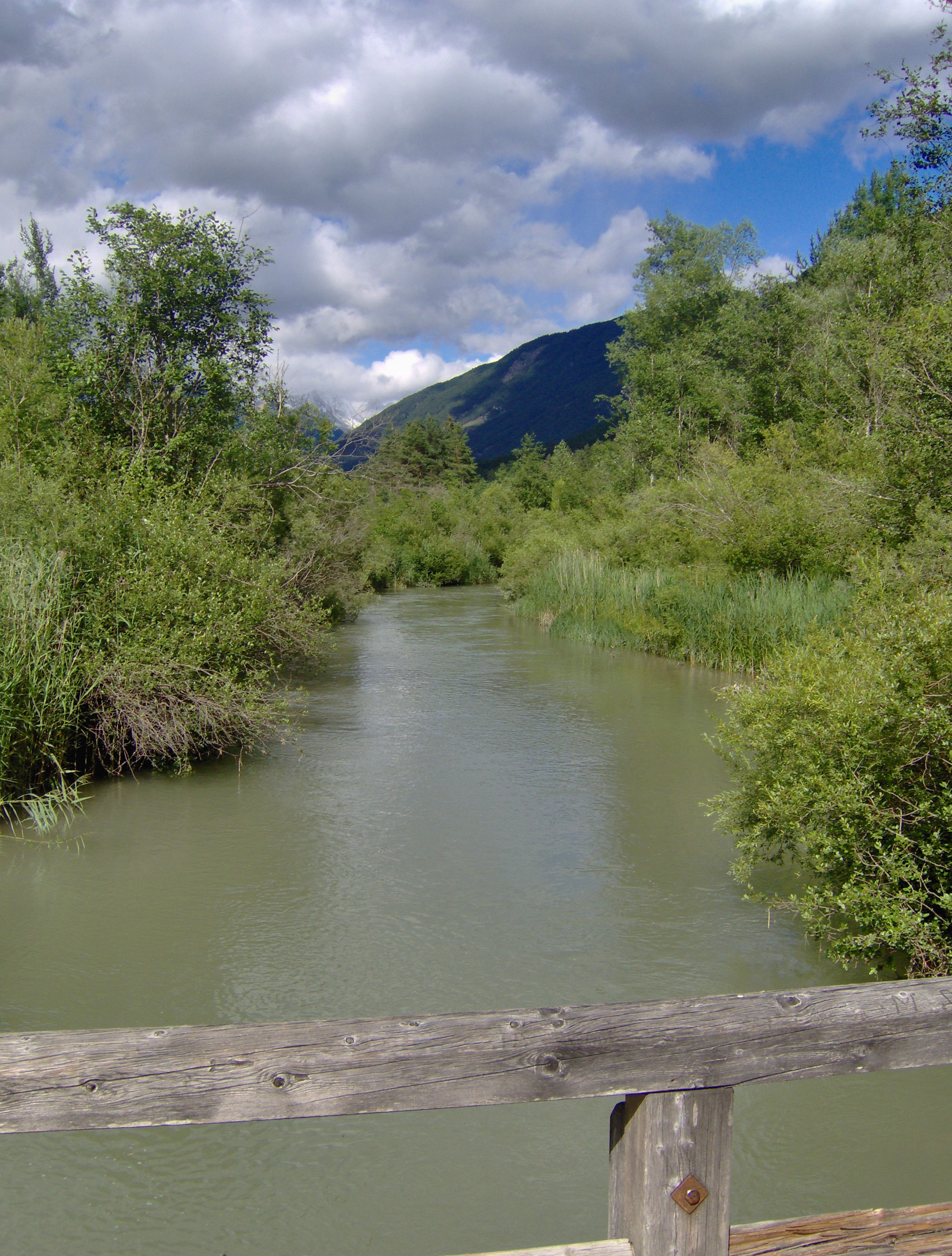 The river Gurglbach near Tarrenz, Tyrol, Austria